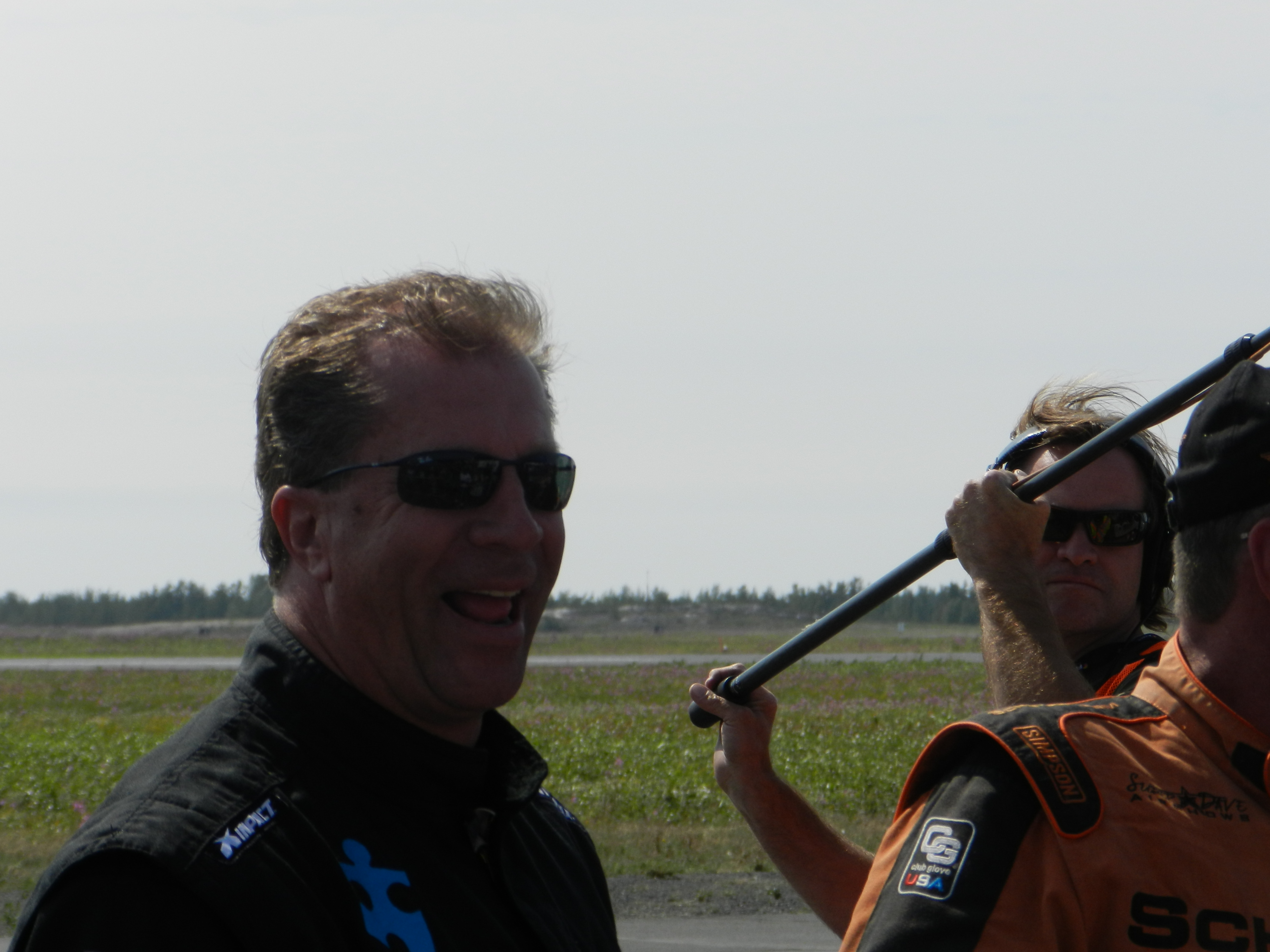 Jon Melby pilot of N348JM